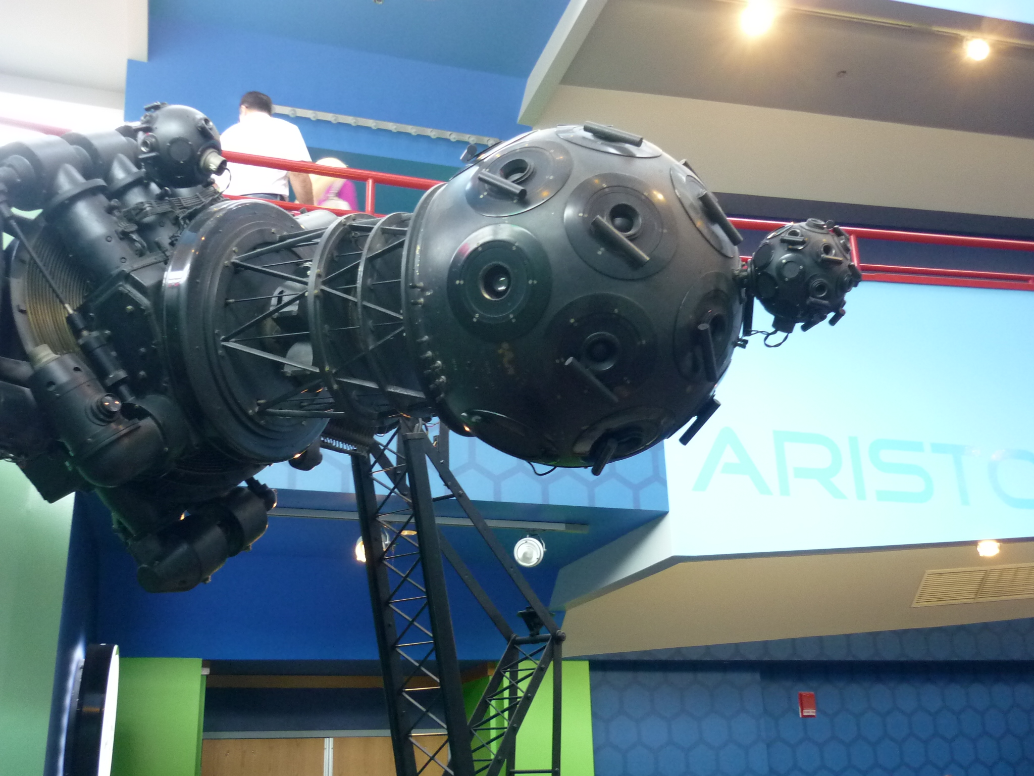 The Zeiss Model II Star Projector nicknamed "Jake" by staff on display at the Carnegie Science Center, Pittsburgh, Pa. It was employed in 1939-1991 at the Buhl Planetarium. Was built in Germany by Zeiss Optical Works. Among the features: a 1000-watt incandescent bulb; an ability to project the stars at any point in time, from any place on the Earth; more than 1000 planetarium shows were created and distributed worldwide, some of them were narrated by Arthur C. Clarke and Leonard Nimoy.